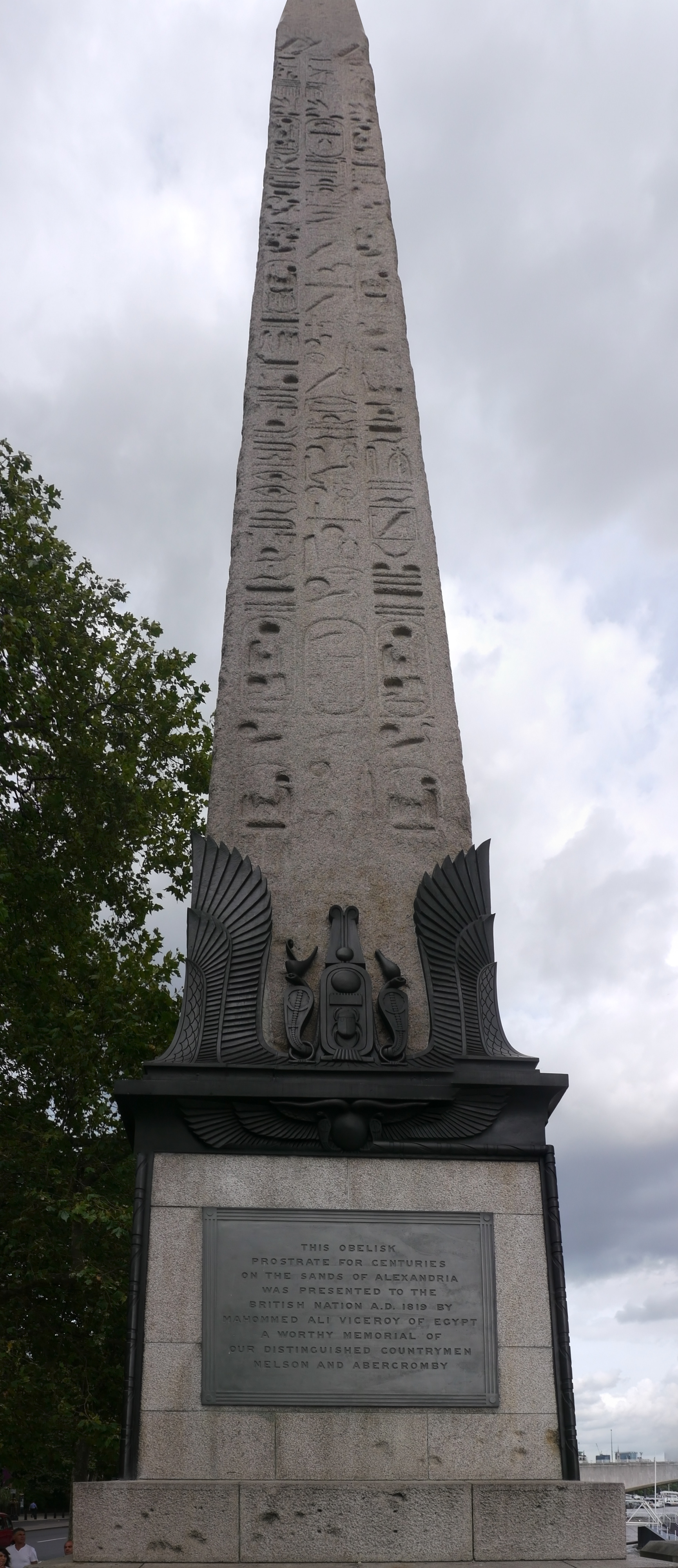 Obelisk at Embarkment, London